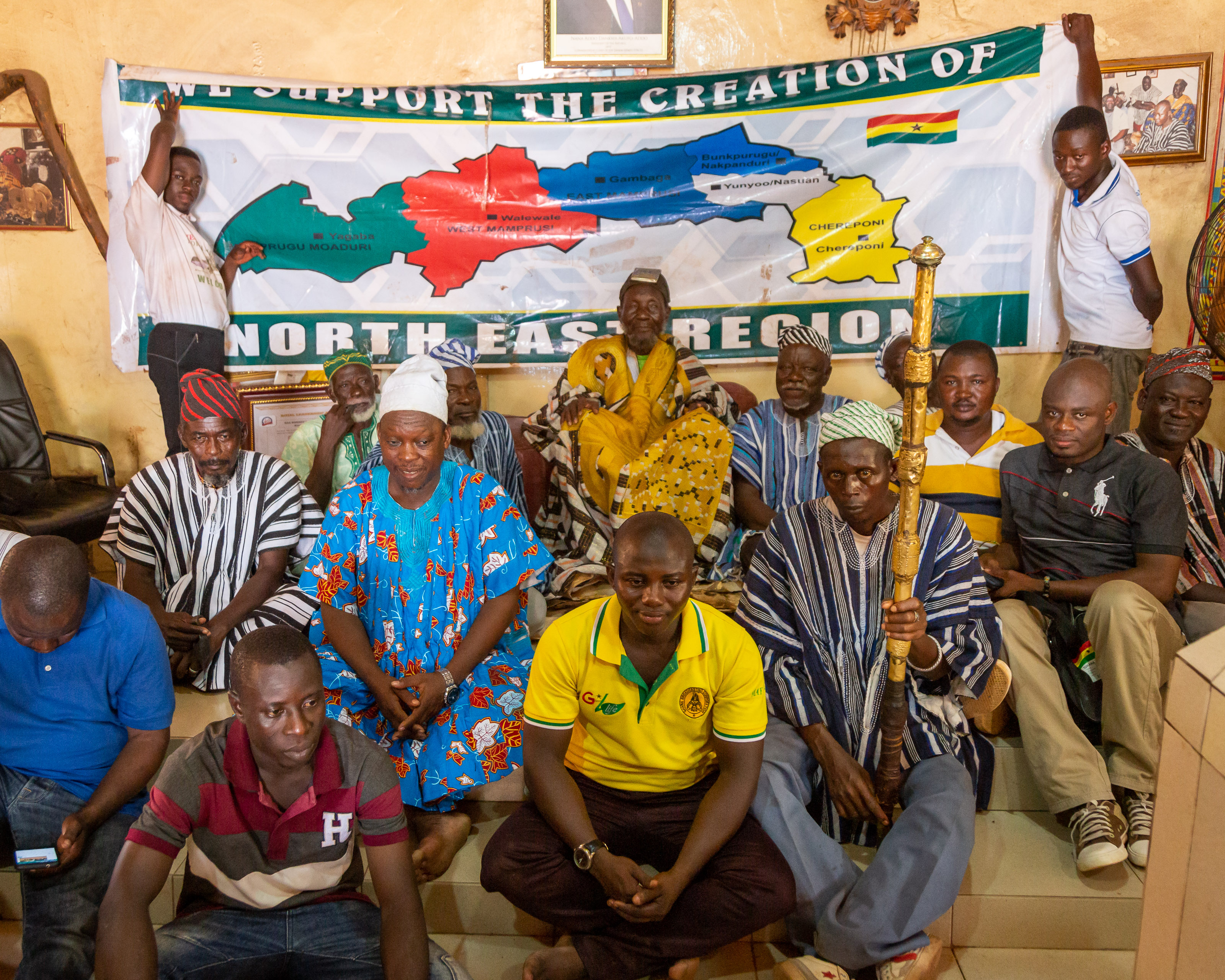 NaYiri NaBɔhaga Mahami Sheriga at his palace in Nalerigu, Ghana supports the creation of the North East Region.